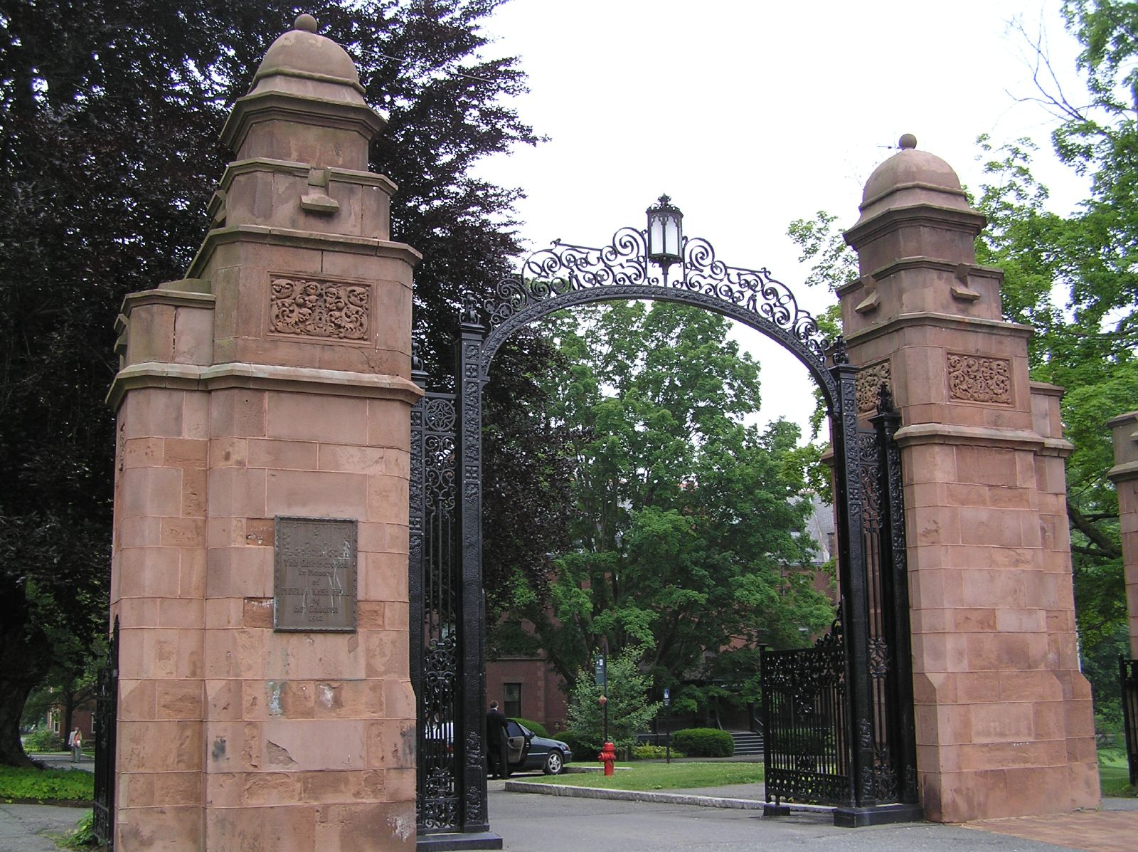 The main gate of Mount Holyoke College in South Hadley, Massachusetts.